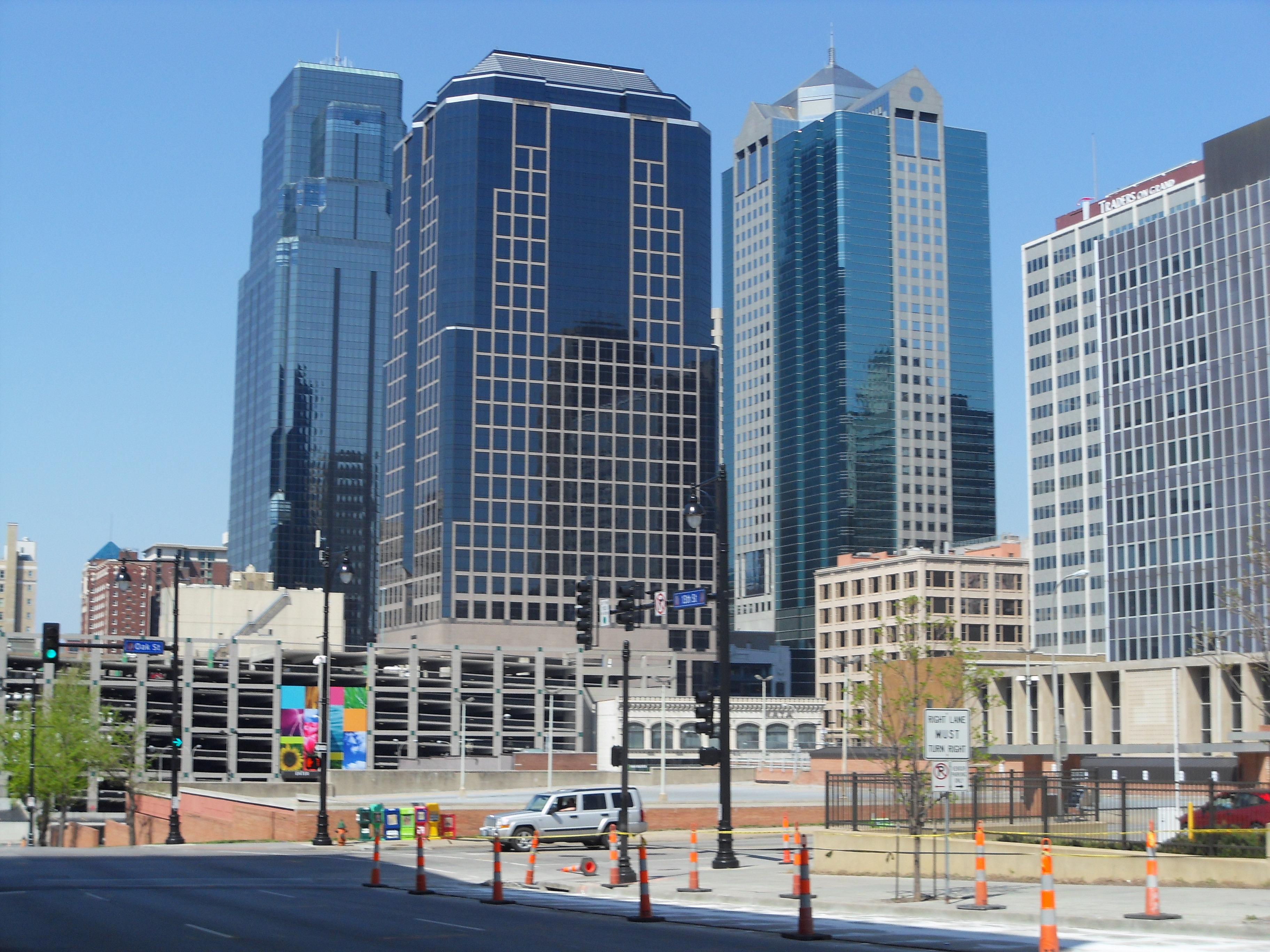 One Kansas City Place and Town Pavilion Complex to the right.